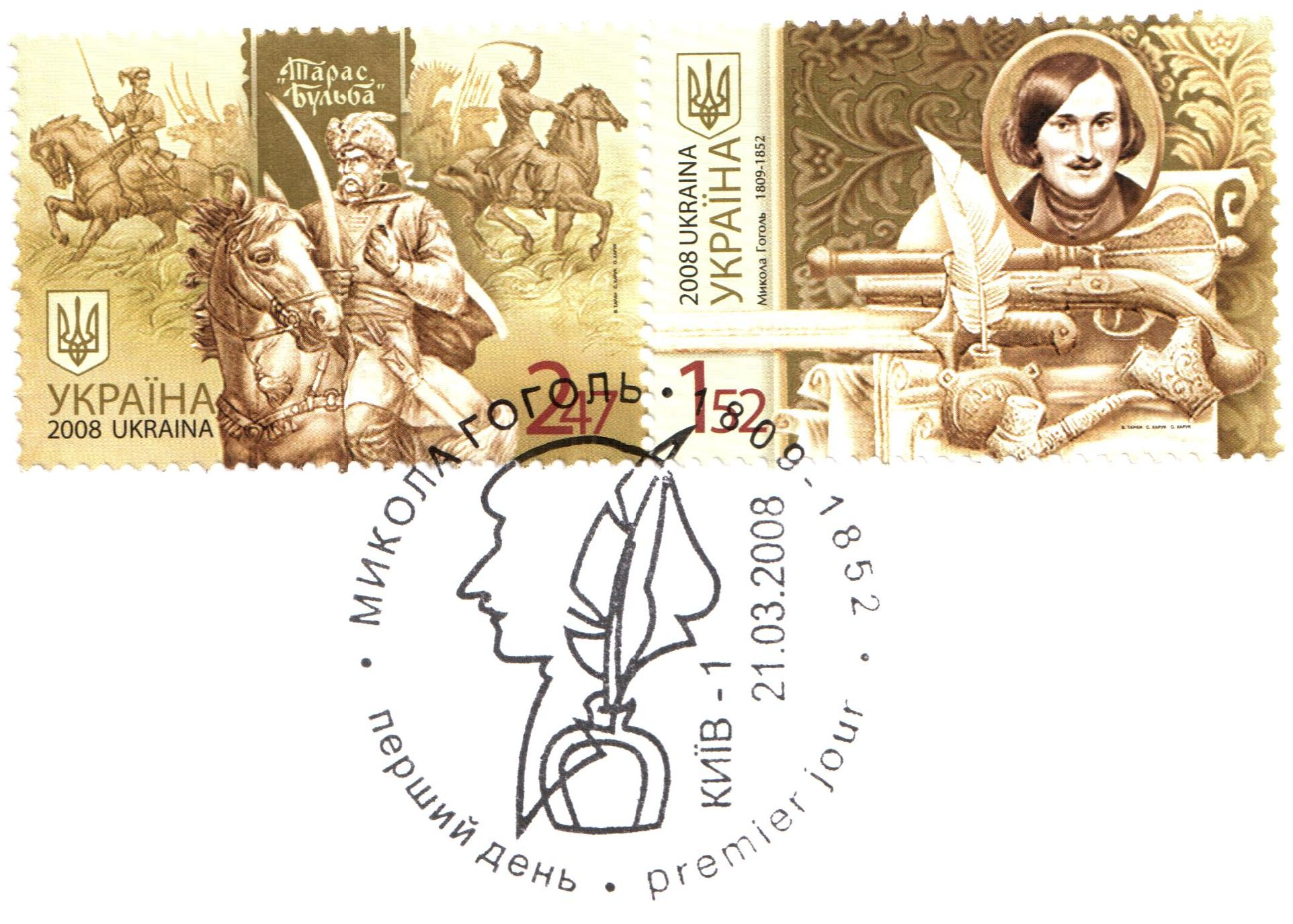 200th birth anniversary of Nikolai Gogol (1809-1852). Se-tenant stamps of Ukraine, First Day Cover (fragement), 2008.